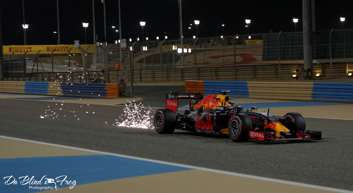 Daniel Ricciardo at the 2016 Bahrain Grand Prix